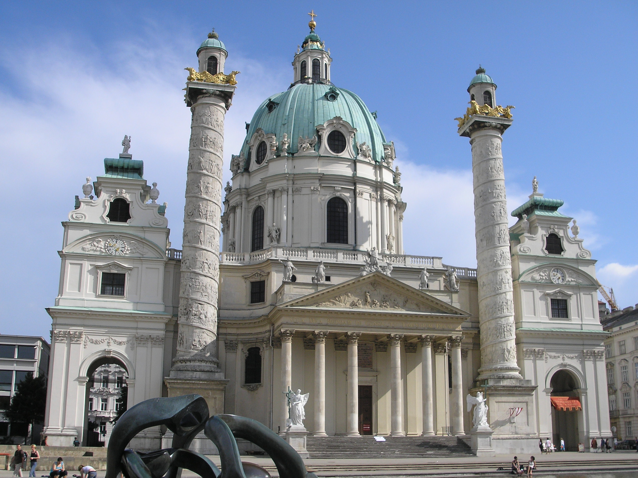 Austria, Vienna, St. Charles's Church